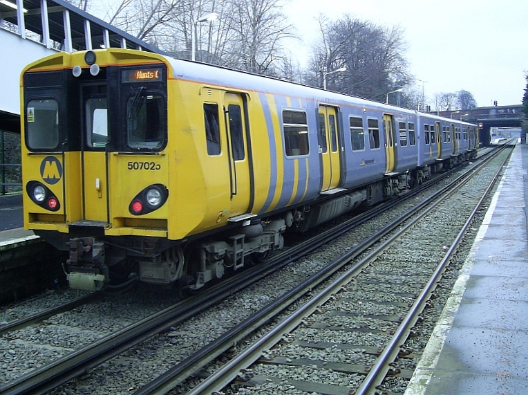 Merseyrail unit 507025 stands at Garston station working a Hunts Cross train, 05/01/06. Image taken by and copyright me, James Rawlinson.